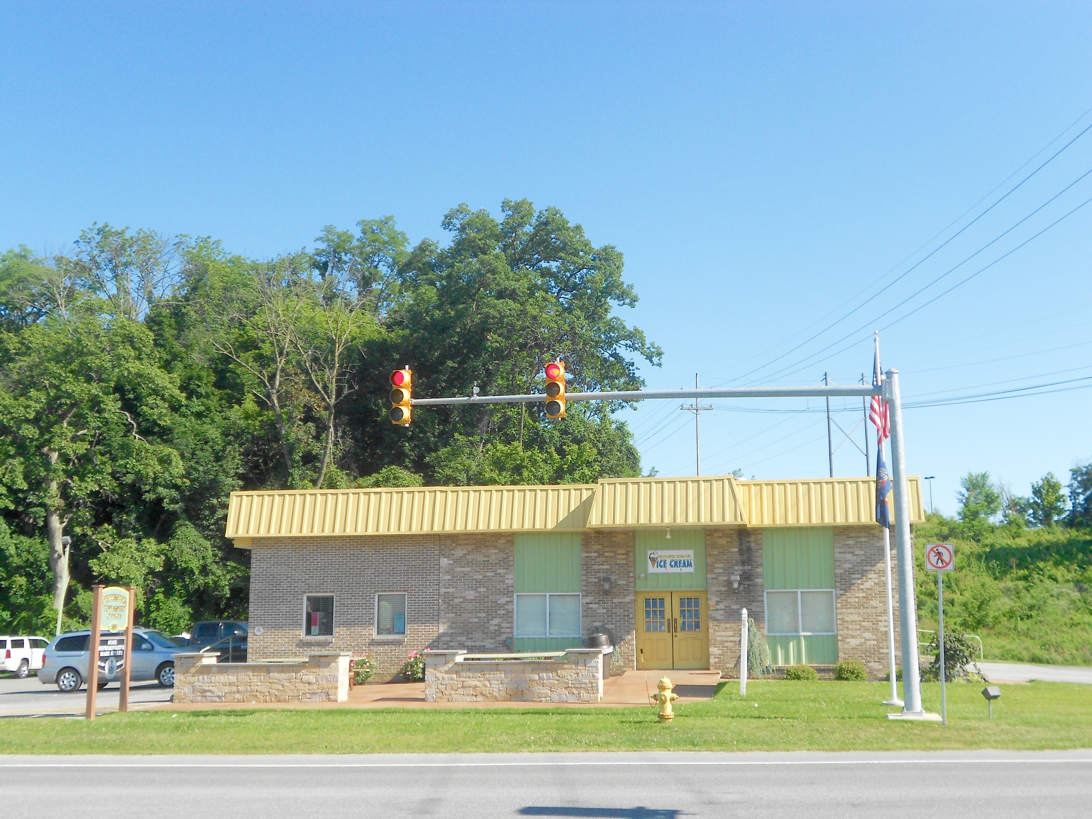 Shippensburg Township Office, Cumberland County, Pennsylvania. Note that they share the building with an ice cream shop